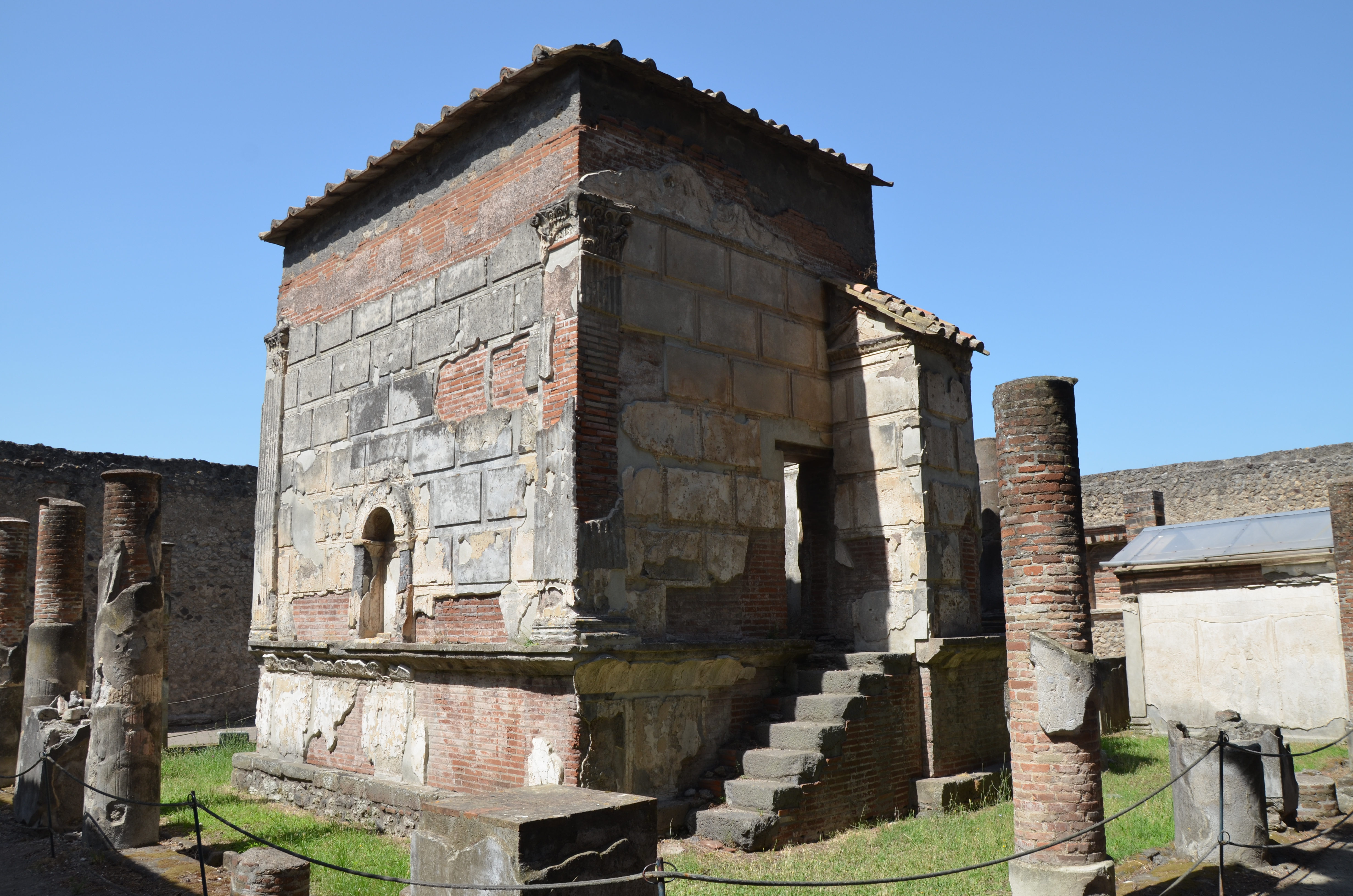 The temple dates from the 2nd century BC and was dedicated to the Egyptian goddess Isis, whose cult was widespread throughout the Roman Empire.